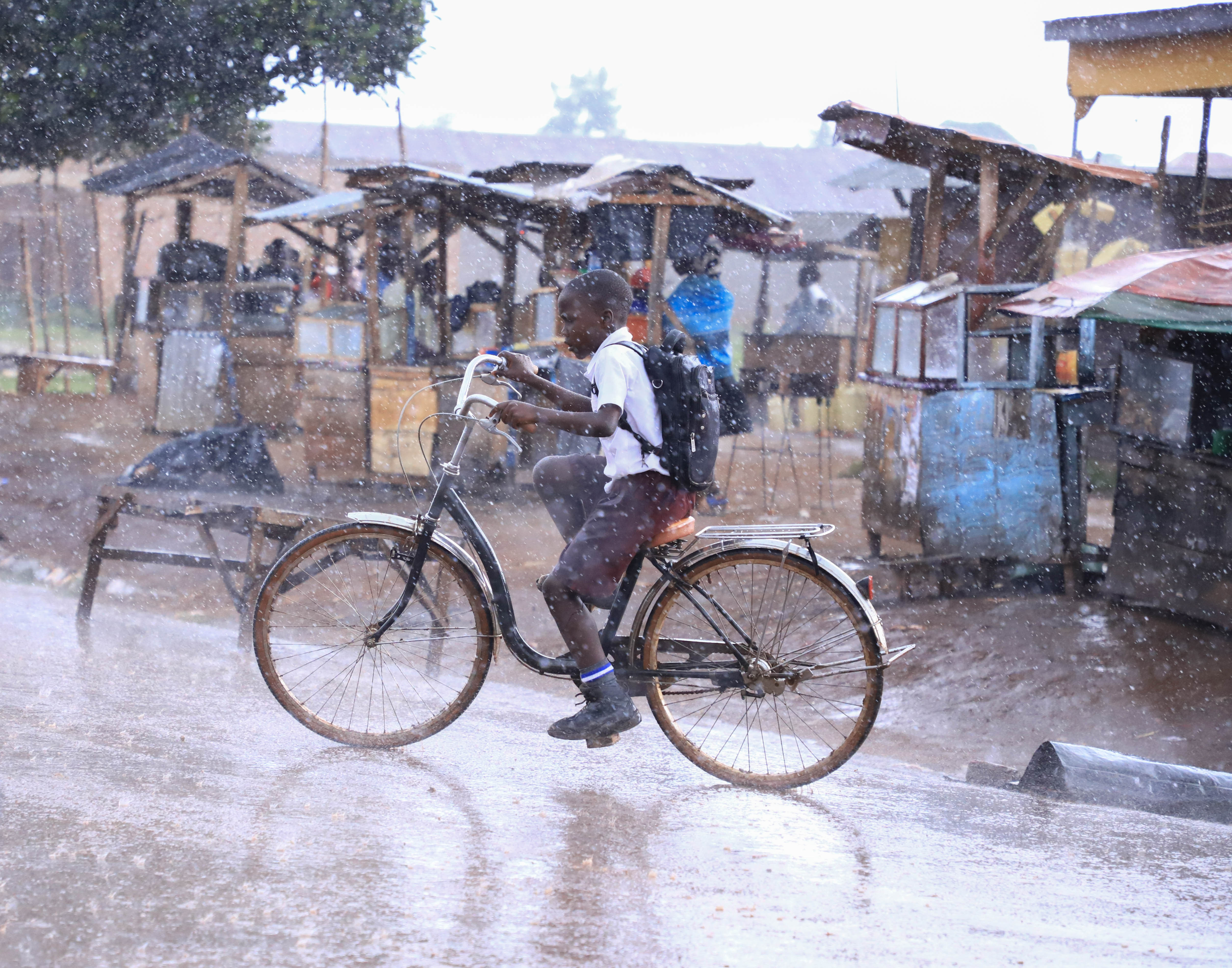 Education is so hard to access in Uganda especially to those living in rural areas. As a way of easing access parents devise means for their children. Here is a photo of a boy in Mayuge district a remote area in Uganda riding a bicycle from school on a rainy evening. This is an image with the theme "Africa on the Move or Transport" from: Uganda